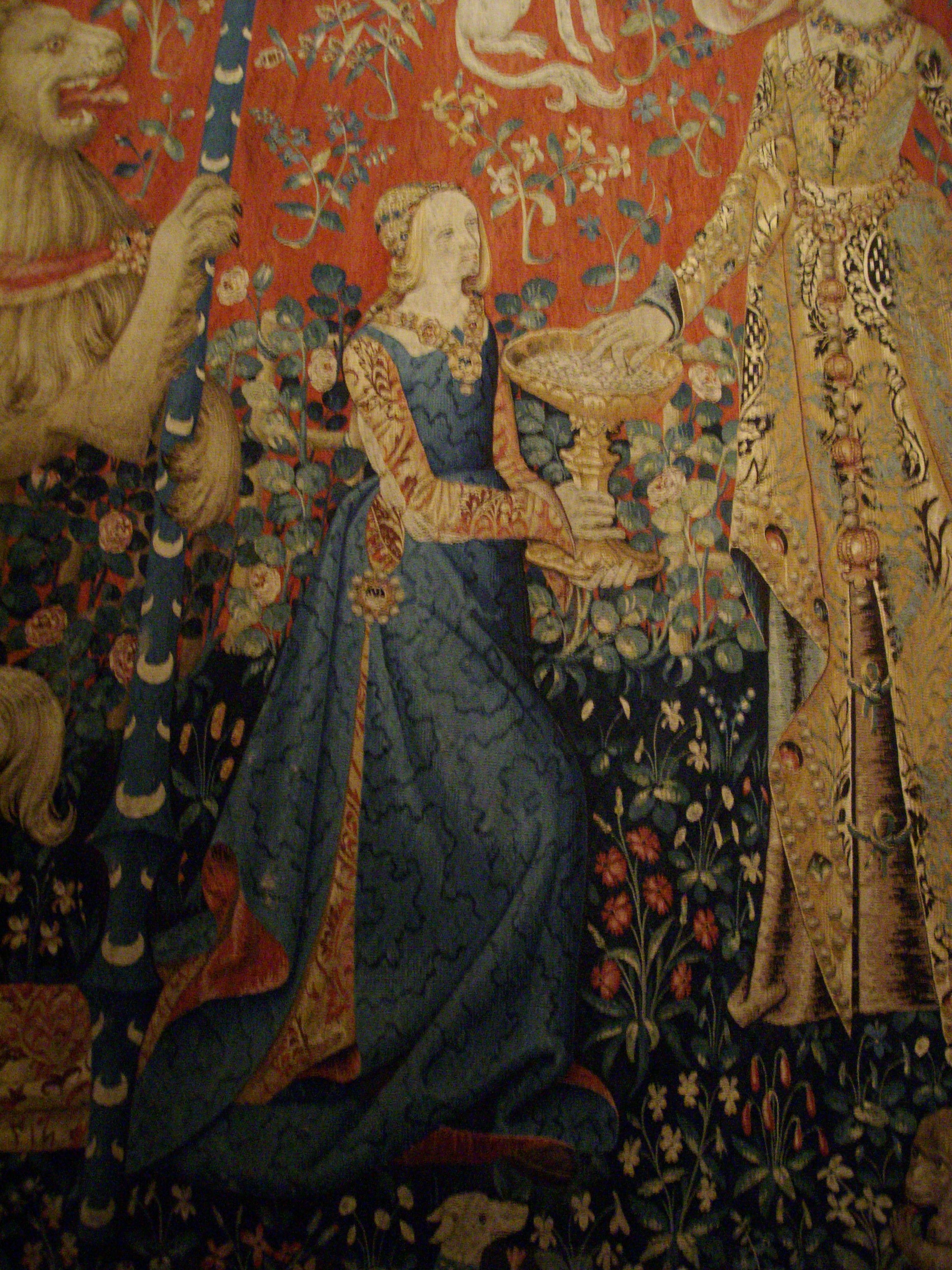 The Lady and the Unicorn